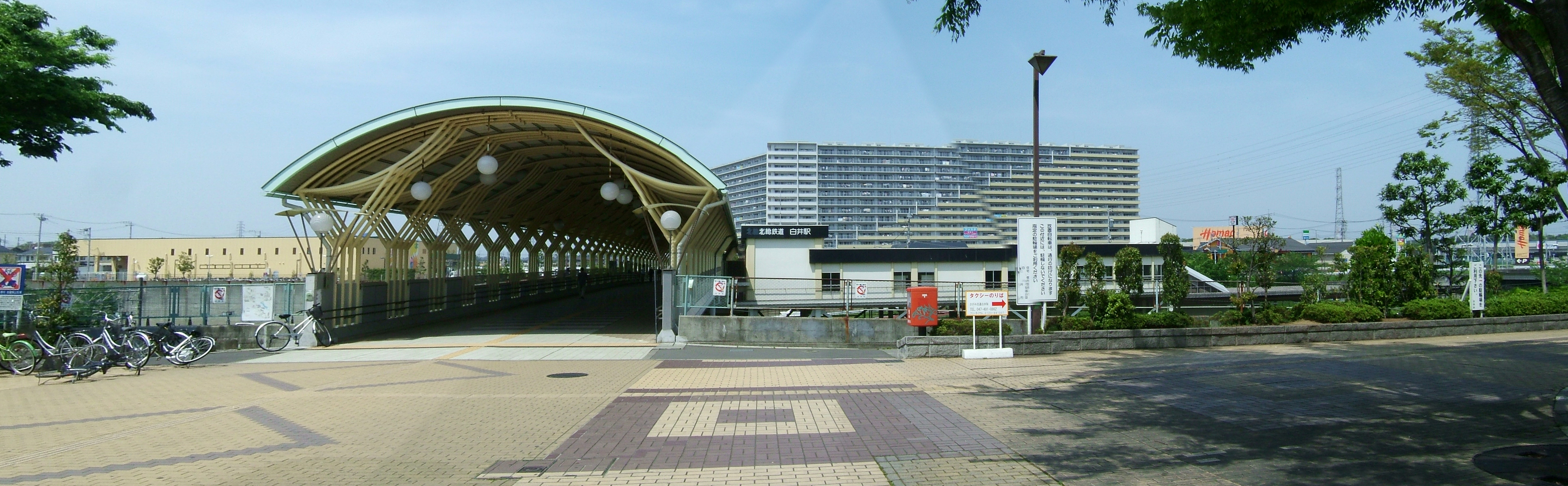 The south entrance to Shiroi Station on the Hokusō Railway in Shiroi city, Chiba prefecture, Japan